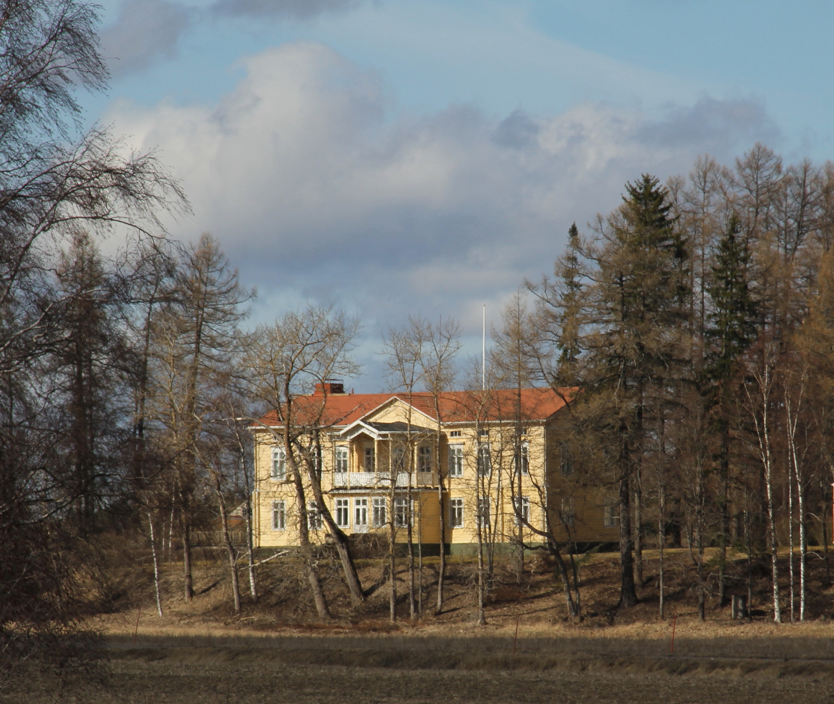 Mommila manor main building, Mommila, Hausjärvi, Finland. Photo taken from the Mommila churchyard.